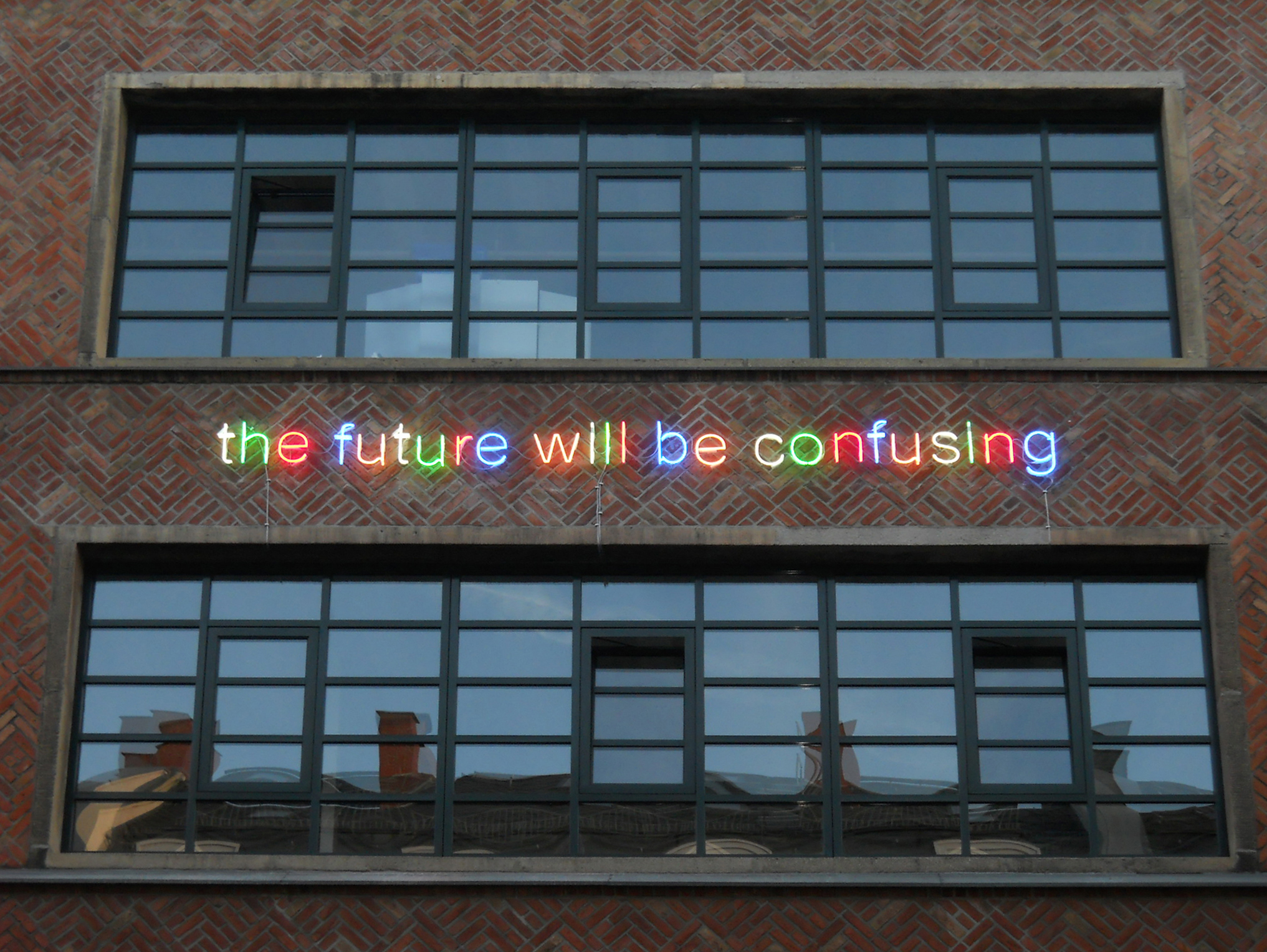 Art-work by Tim Etchells, Mousonturm, Frankfurt am Main